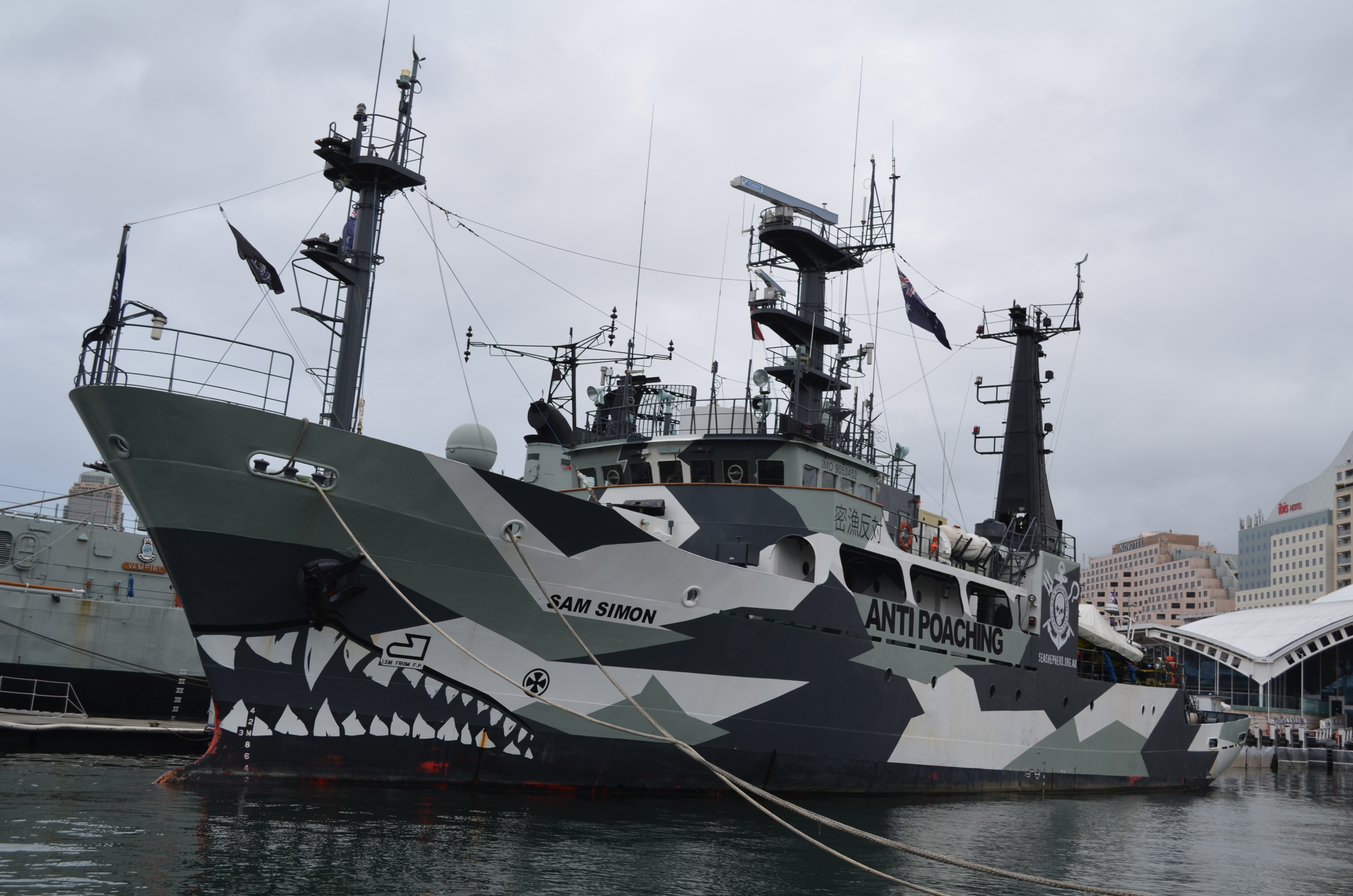 Port bow view of the Sea Shepherd vessel Sam Simon berthed at the Australian National Maritime Museum